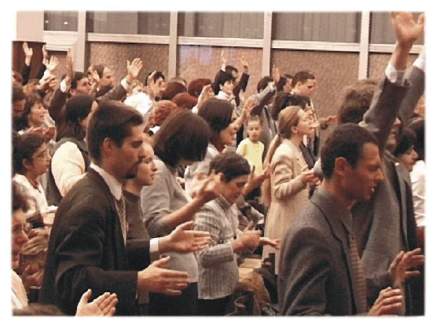 Pentecostals worship service in Slovakia